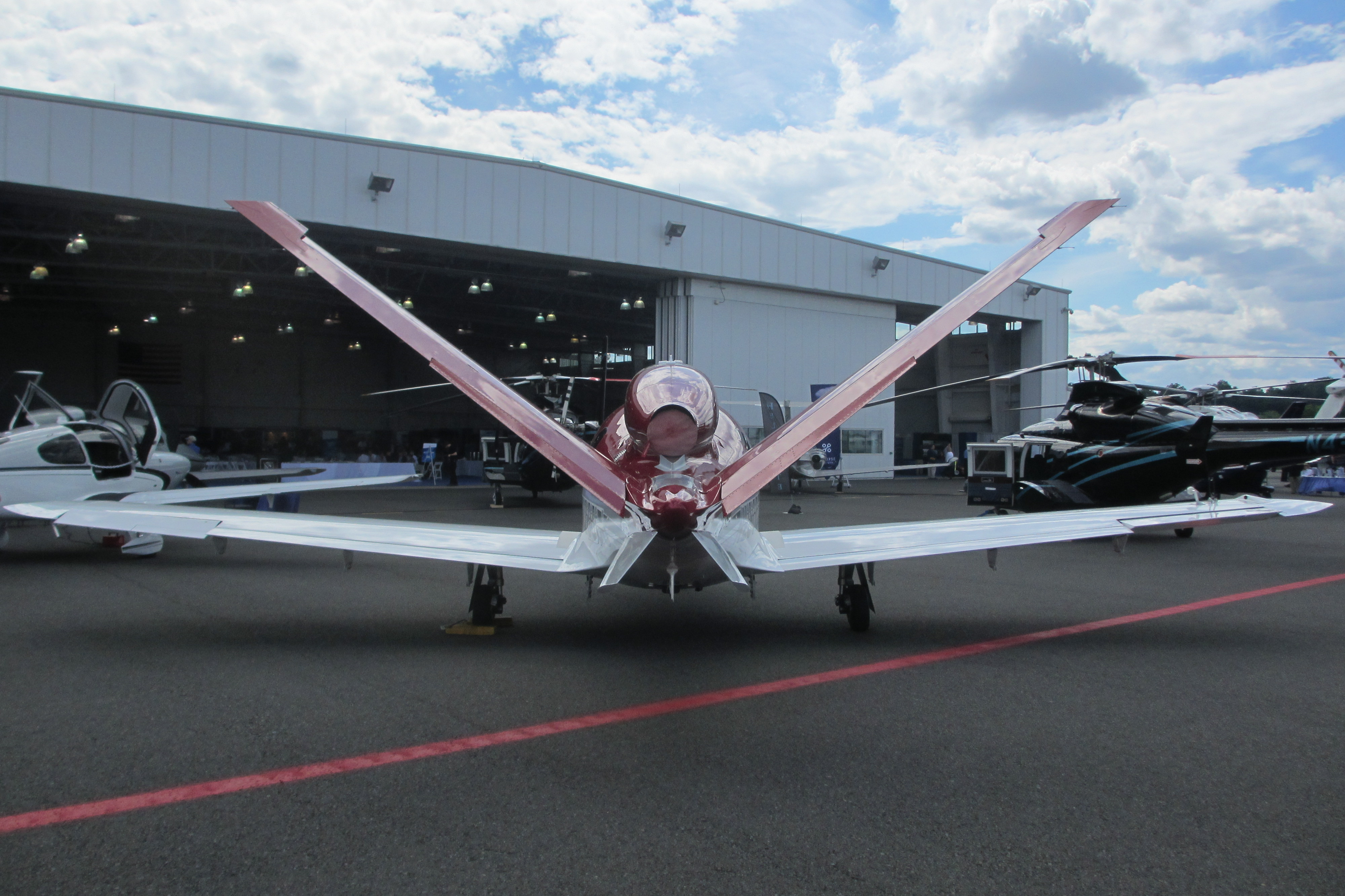 Cirrus Vision SF50 exterior tail view